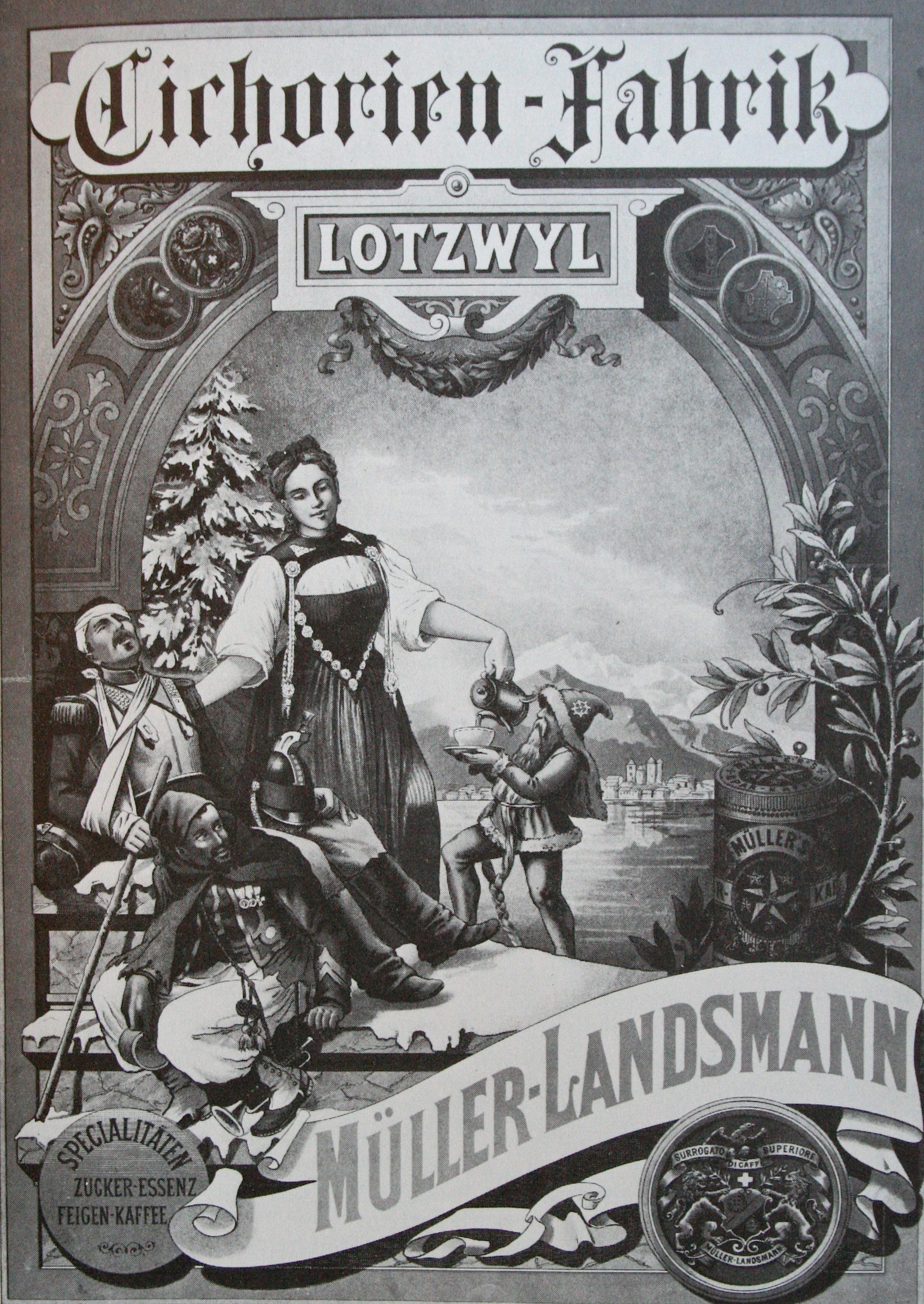 Reklameplakat von Karl Jauslin, Chromolithografie, 63x48.5 cm